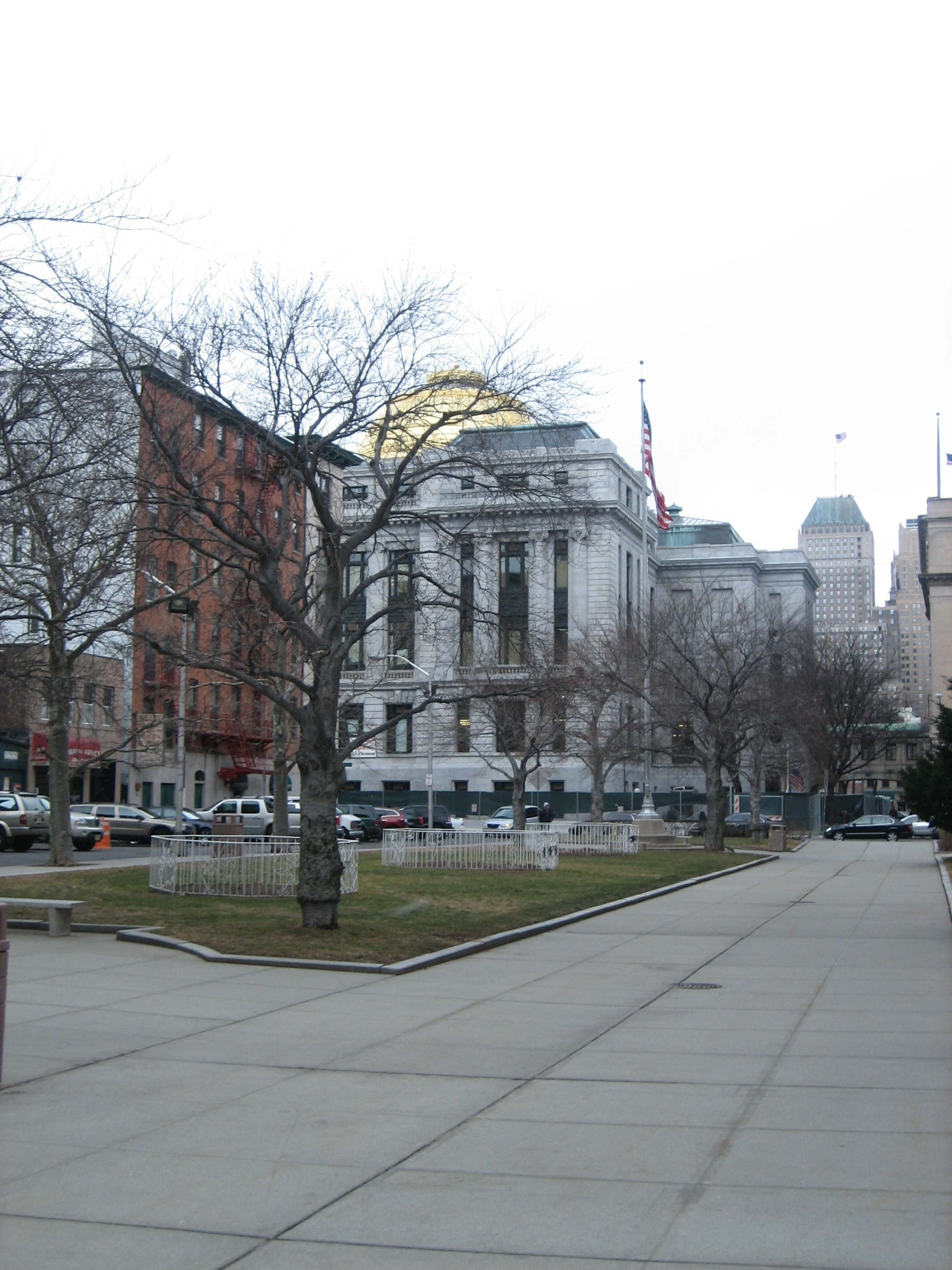 Federal Square, Newark, New Jersey